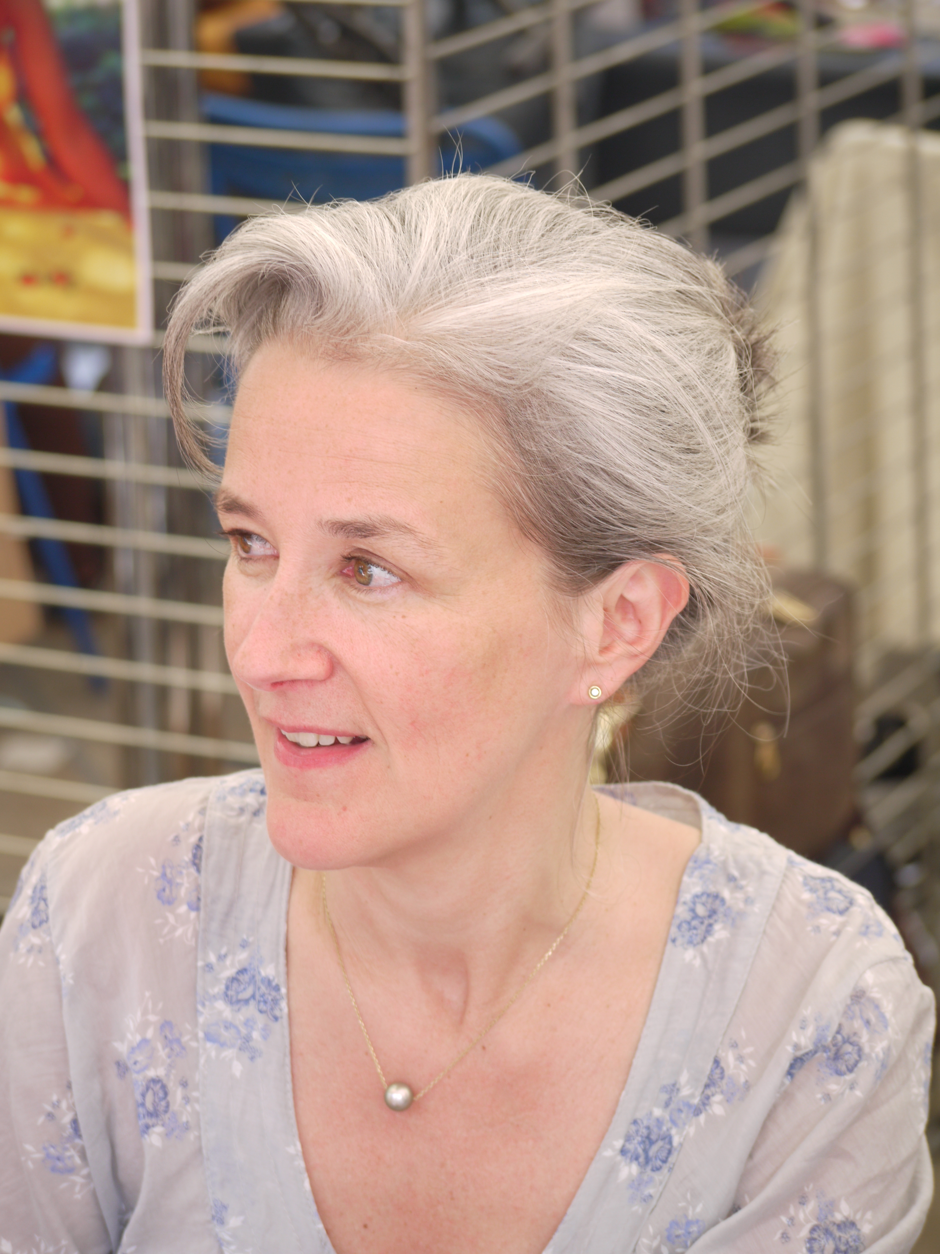 Comédie du Livre 2010 edition of Montpellier